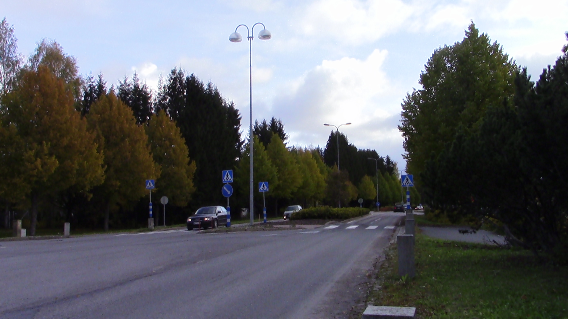 Finnish regional road 290 at Turenki in Janakkala. The road runs from Hyvinkää to Hämeenlinna.